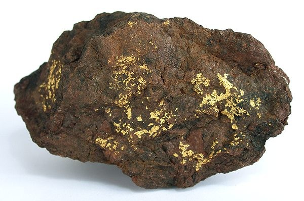 Gold, Hematite Locality: Dutchman Mine (Flying Dutchman Mine), Bouse, Plomosa District, Plomosa Mts, La Paz County, Arizona, USA (Locality at ) Size: 6.9 x 4.1 x 3.7 cm. STRIKING, rich, golden-yellow gold flakes are densely scattered on hematite matrix on this very showy and rich specimen from a less well-known Arizona locality - the Dutchman Mine, Bouse, La Paz County. Old-time and excellent material. Ex. John Ydren Collection.